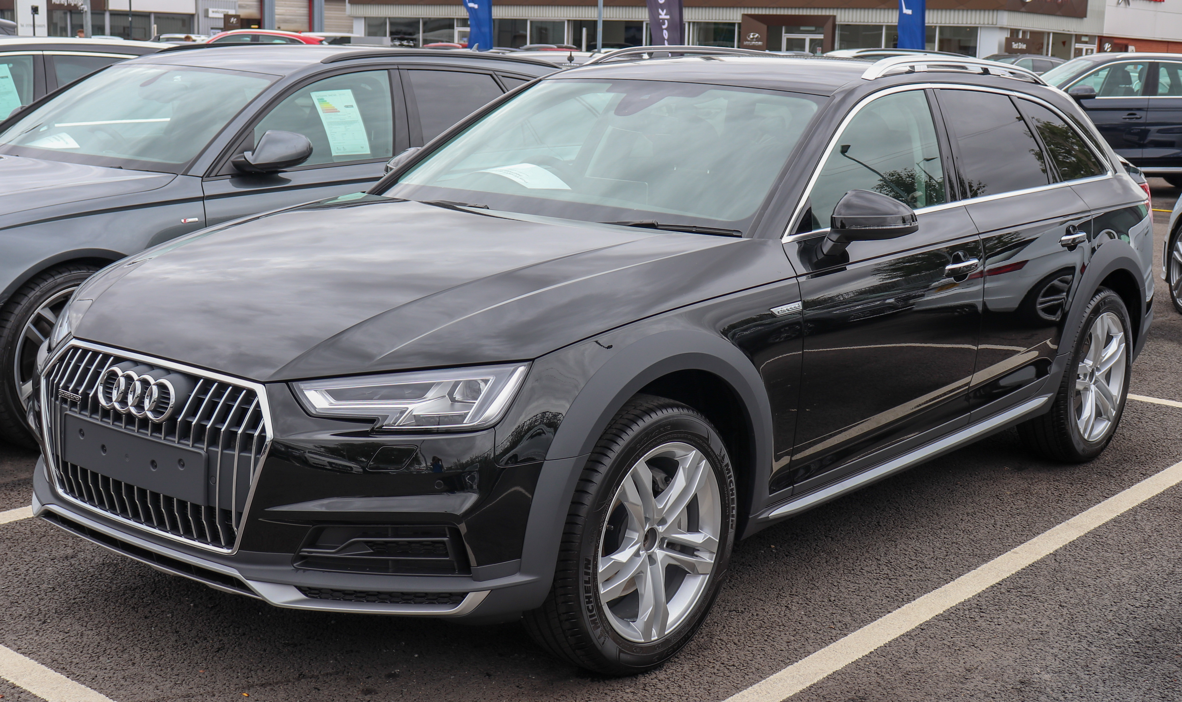 2018 Audi A4 Allroad Quattro Front Taken in Stratford-upon-Avon